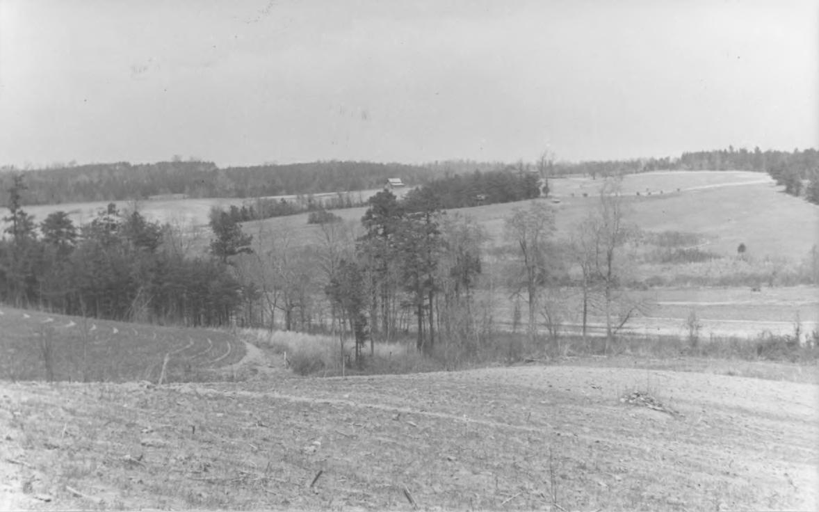 Sayler's Creek Battlefield, 1936 photo. Cropped in 2008 to remove border and caption whose complete text was "Sayler's Creek Battlefield State Park, 1936 / Looking from Ewell's right across Sayler's Creek (Hillsman House in background) / N. P. S. photograph".